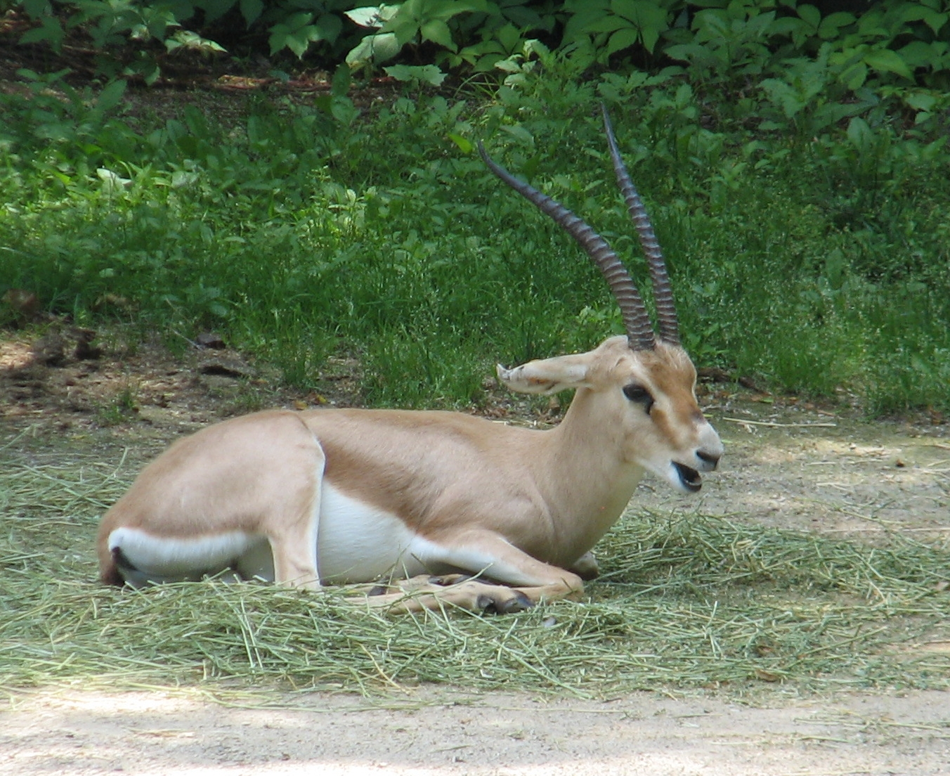 Slender-horned Gazelle - Gazella leptoceros at Cincinnati Zoo